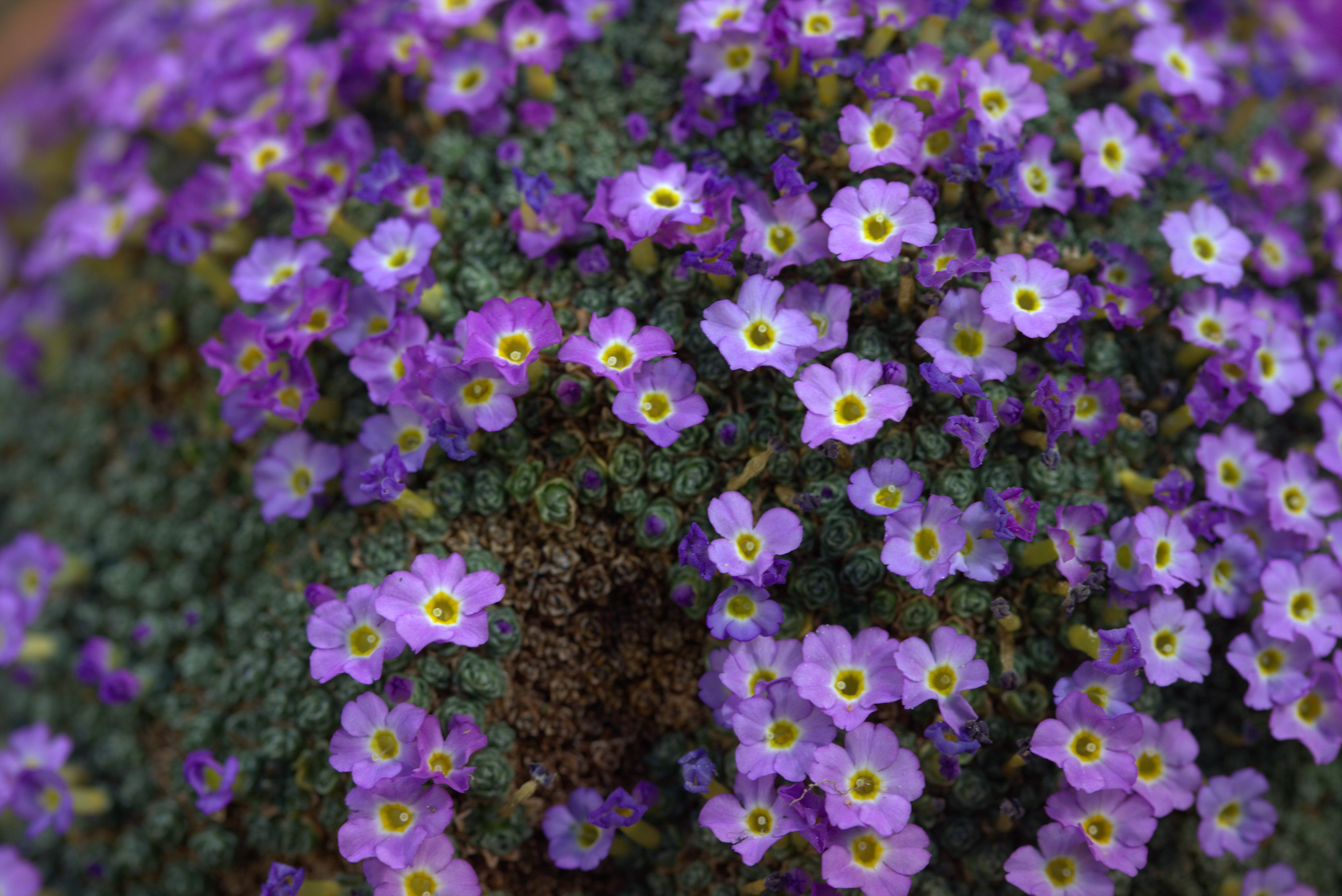 Dionysia curviflora at Gothenburg Botanical Garden in 2015. Plant id: Watson EGW 7...